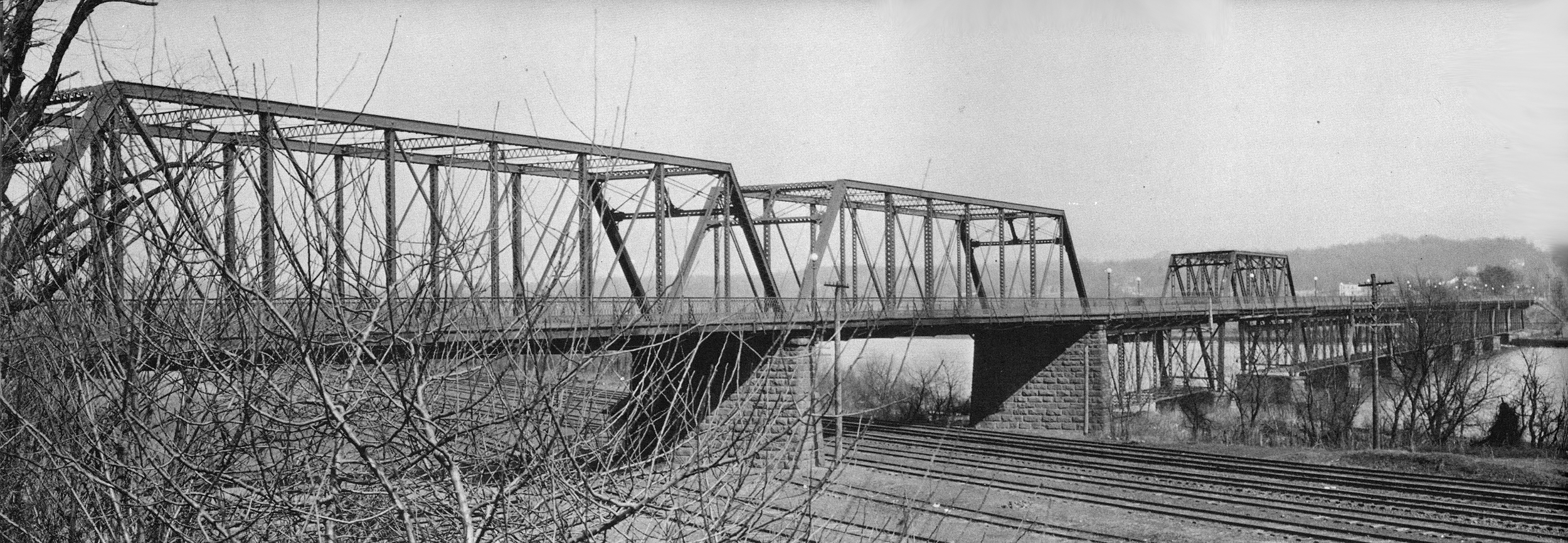 Looking east at the Pennsylvania Avenue Bridge over the Anacostia River in Washington, D.C., in the United States. The iron truss bridge was constructed in 1890, and replaced a previous bridge which burned in 1846. The bridge featured an iron beam and wood superstructure, and masonry piers. Two over-truss spans on the northwestern terminus of the bridge accommodated the railroad trains which passed beneath. This photo was probably taken in 1939, before this bridge was dismantled to make way for the John Philip Sousa Bridge.